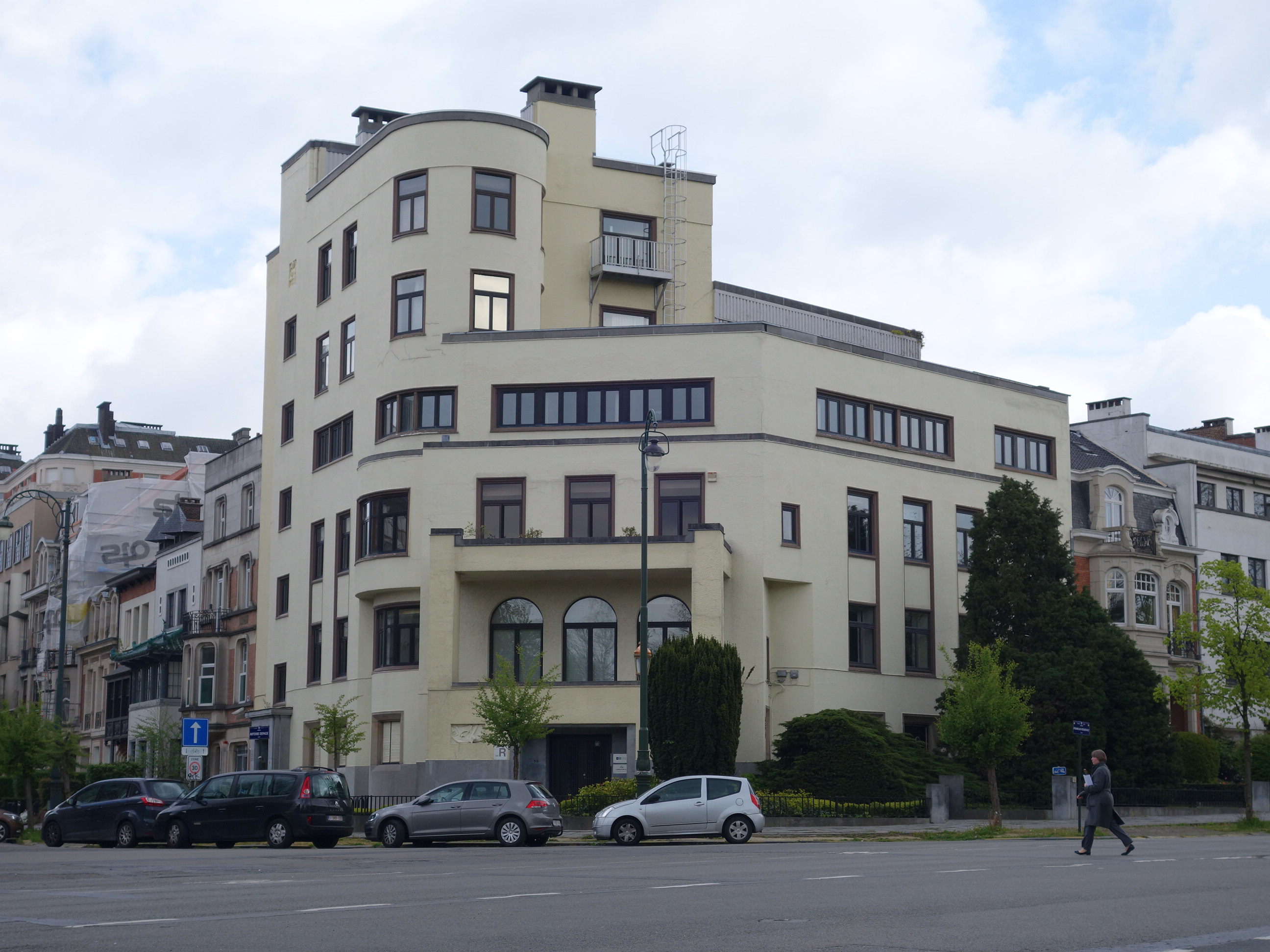 Adrien Blomme building